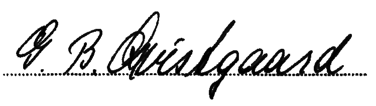 Signature of G.B.Quistgaard at his marriage in 1938Dansk: G.B.Quistgaards underskrift ved hans vielse i 1938